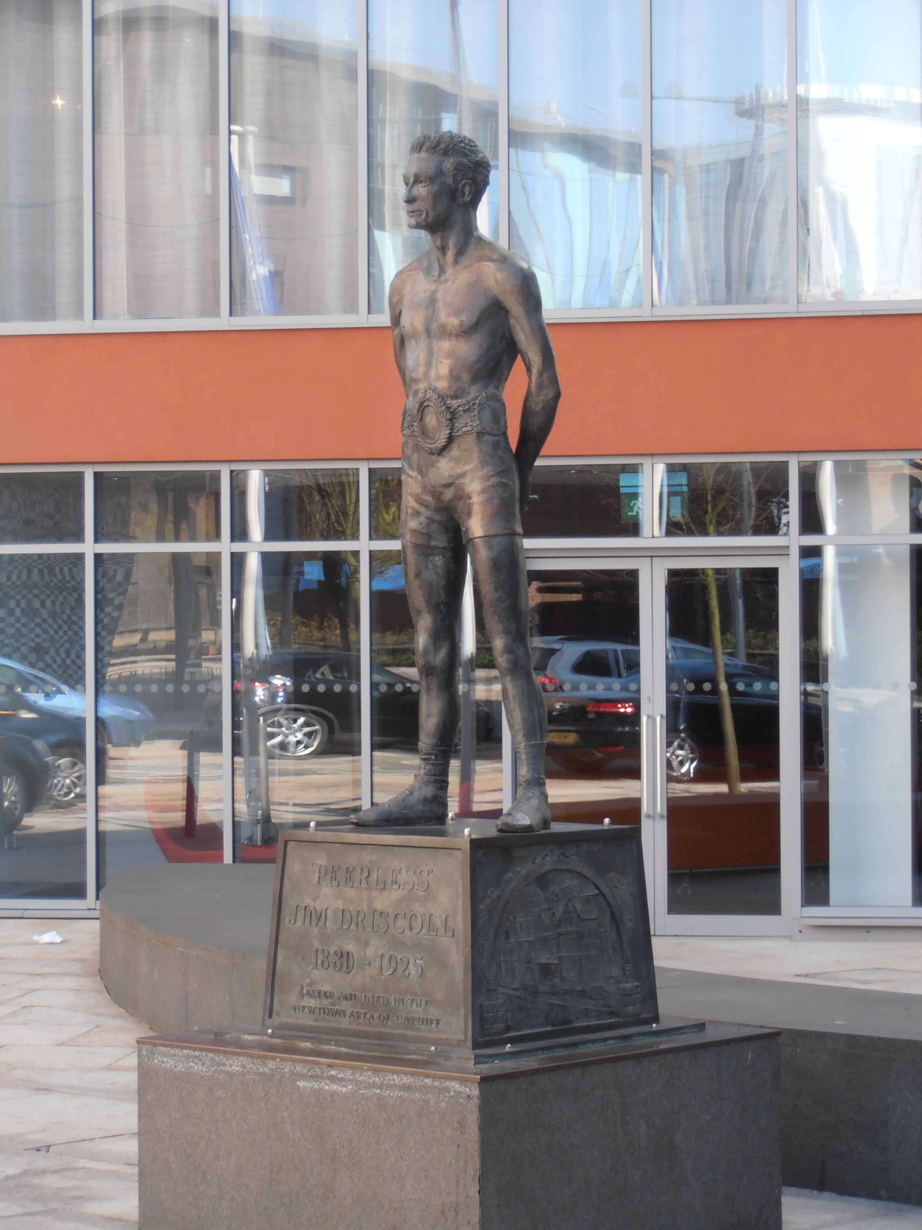 Statue of Jim Driscoll (1997) by Philip Blacker. Custom House Street, Cardiff